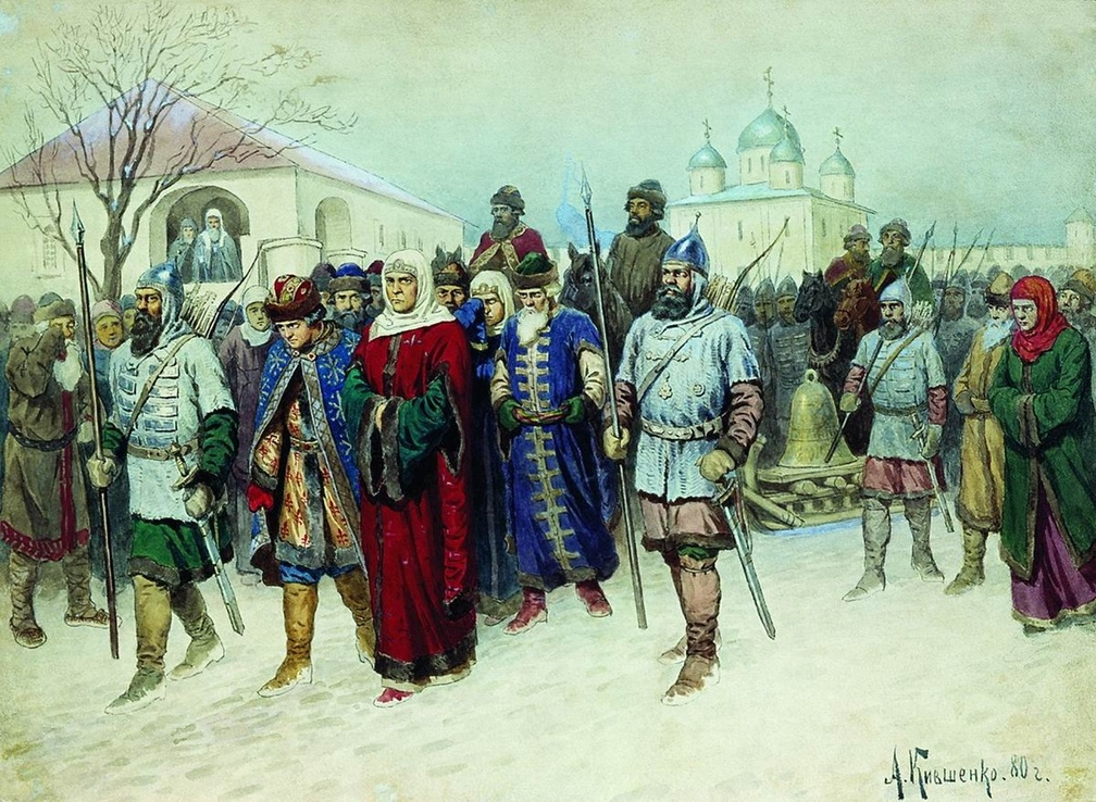 This is picture by russian painter Aleksey Kivshenko: Joining of Great Novgorod Novgorodians Departing to Moscow